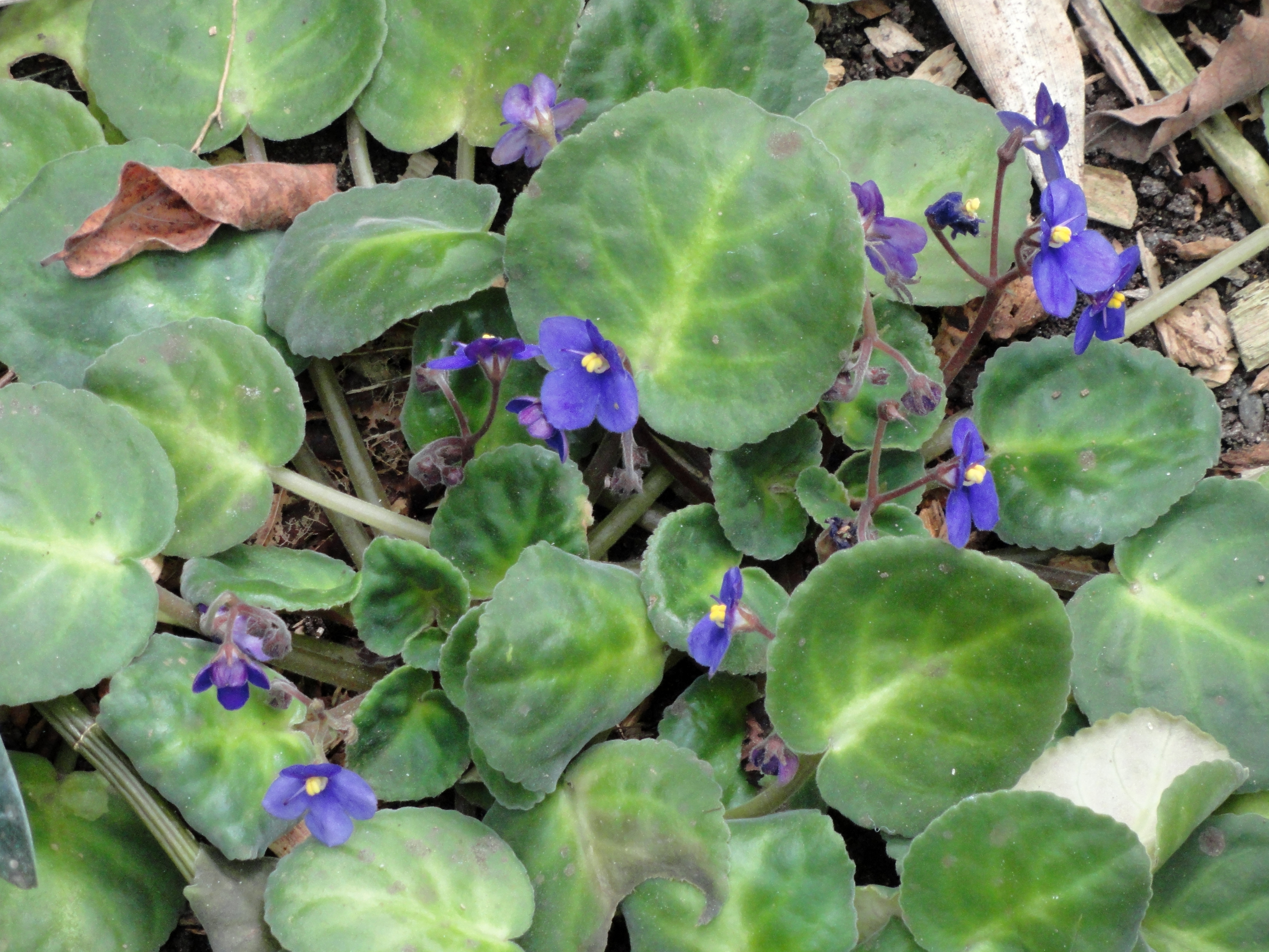 Botanical specimen in the University of Copenhagen Botanical Garden, Copenhagen, Denmark.